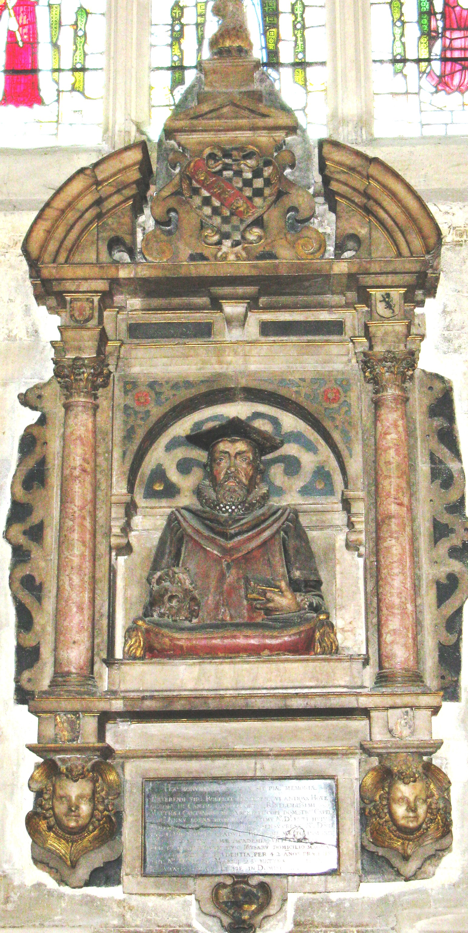 Photograph of the funerary monument of Rev. Dr. Robert Hovenden in the All Spoul's chapel at Oxford, UK